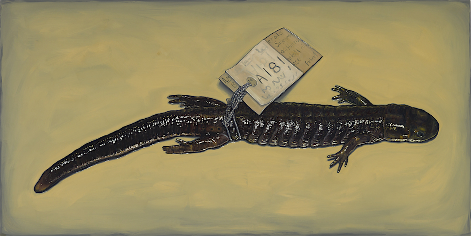 Blue spotted salamander specimen painted by Alberto Rey